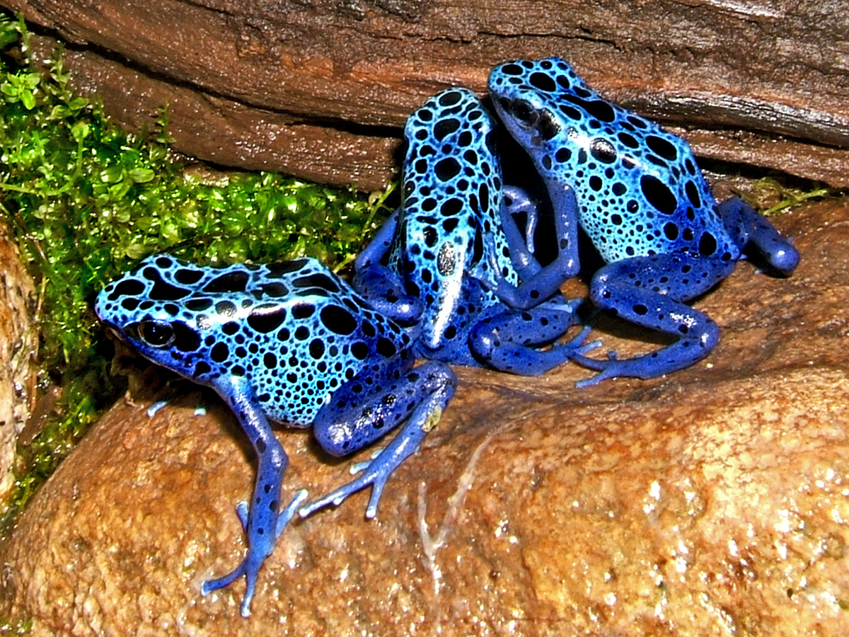 Blue Poison Dart Frog